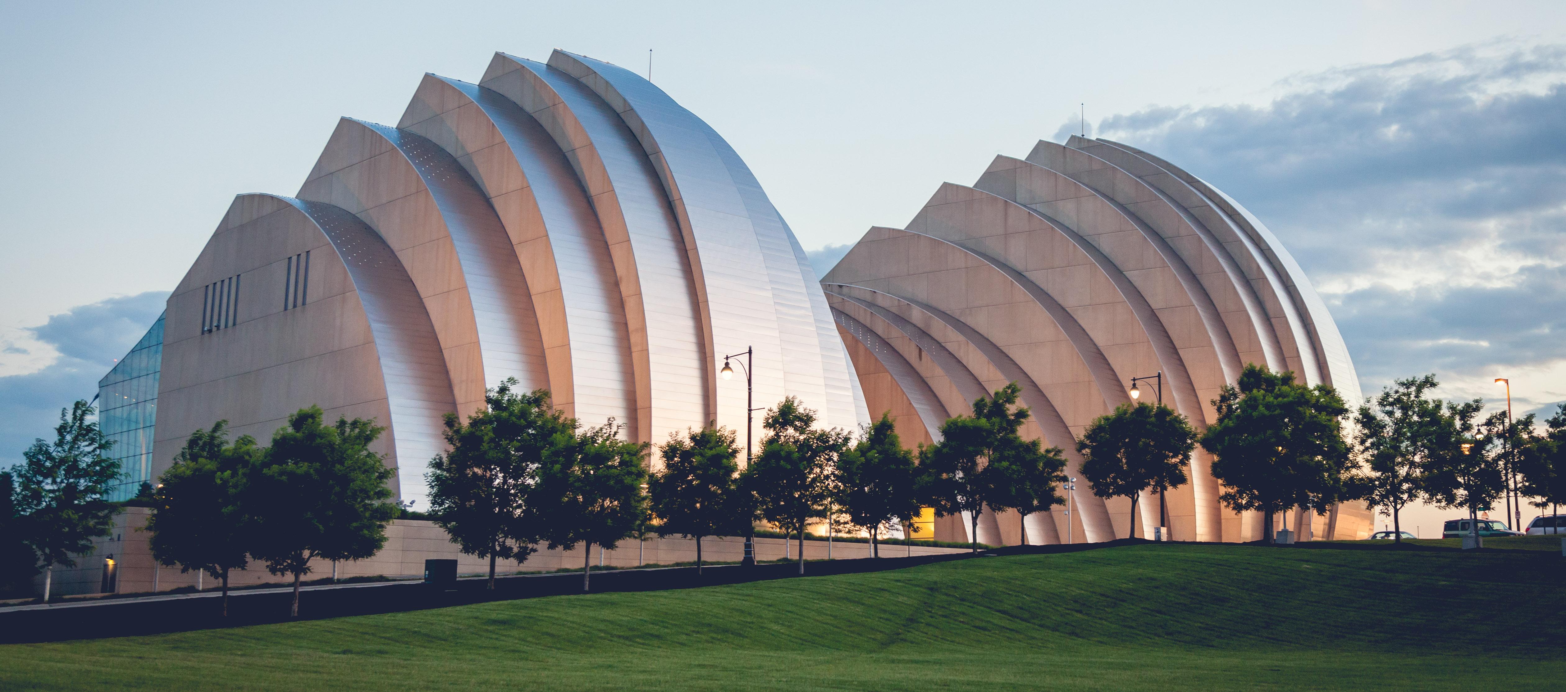 A view of the Kauffman Center for the Performing Arts as seen from the Kansas City Convention Center.